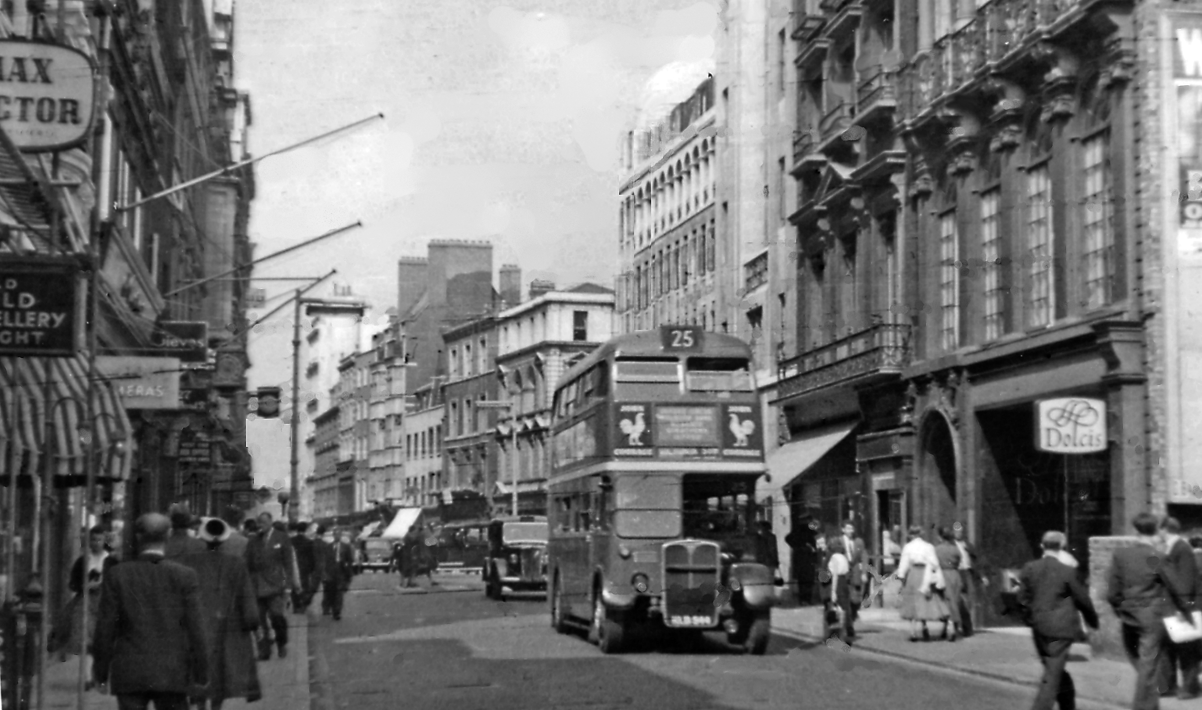 Northward up Old Bond Street from Piccadilly. Smart people - of course. The 25 bus, the only route on Bond Street, is bound for Victoria from Becontree Heath.